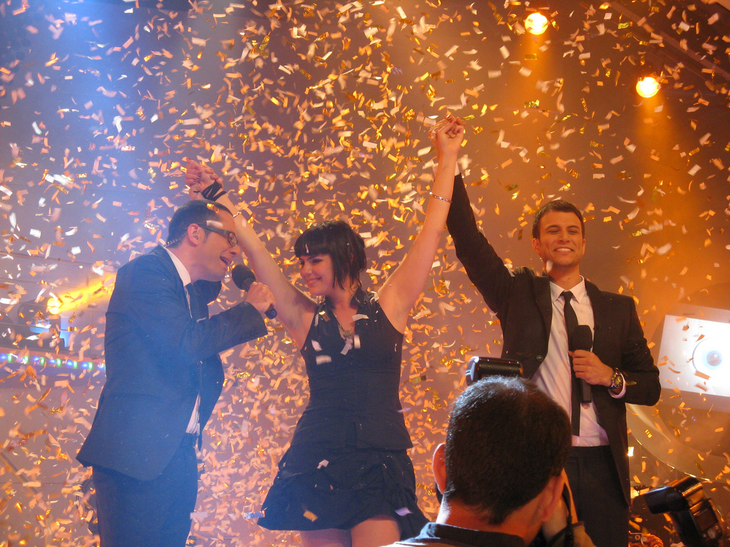 Big Brother final (Israel 2008)